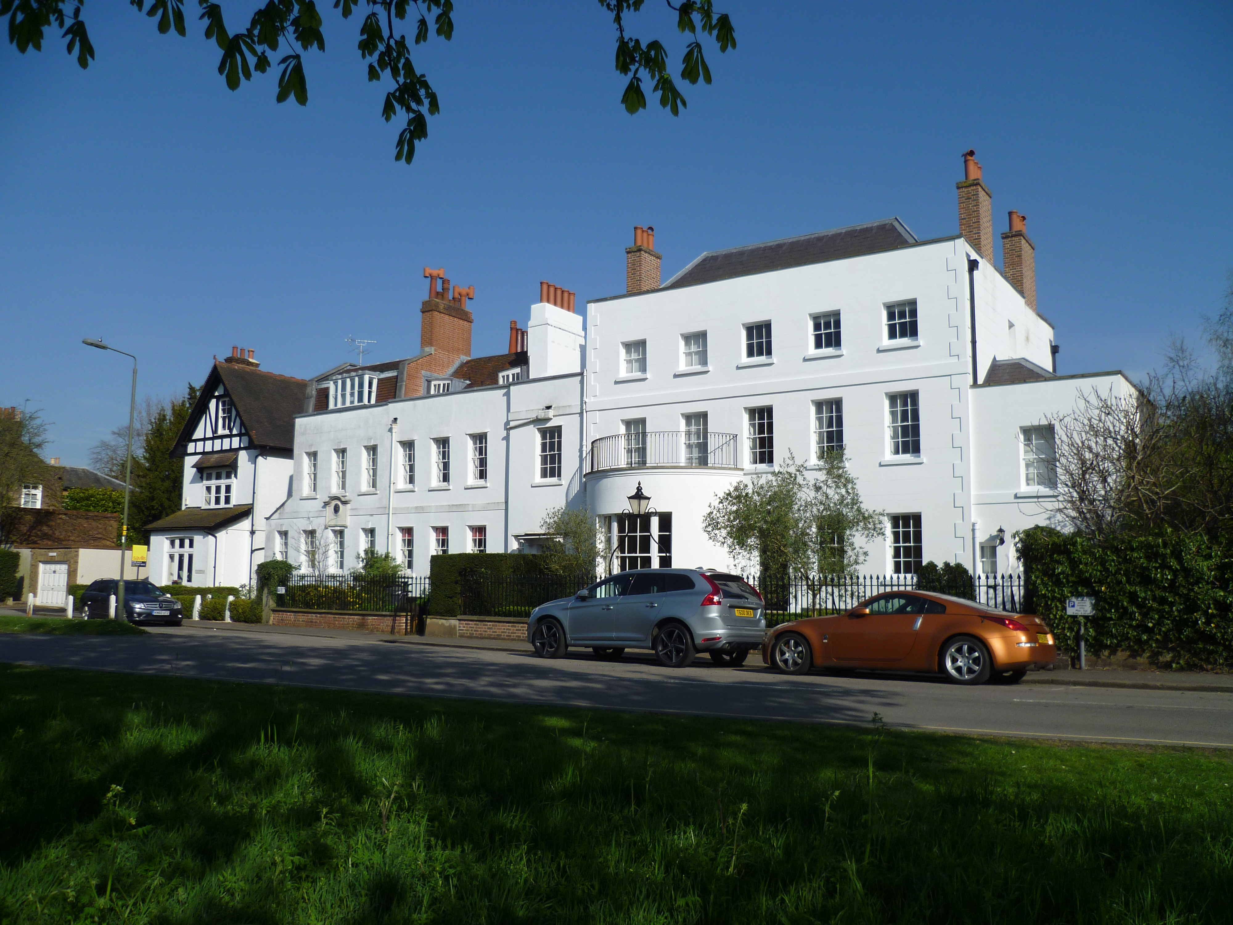 Hadley Green Road houses